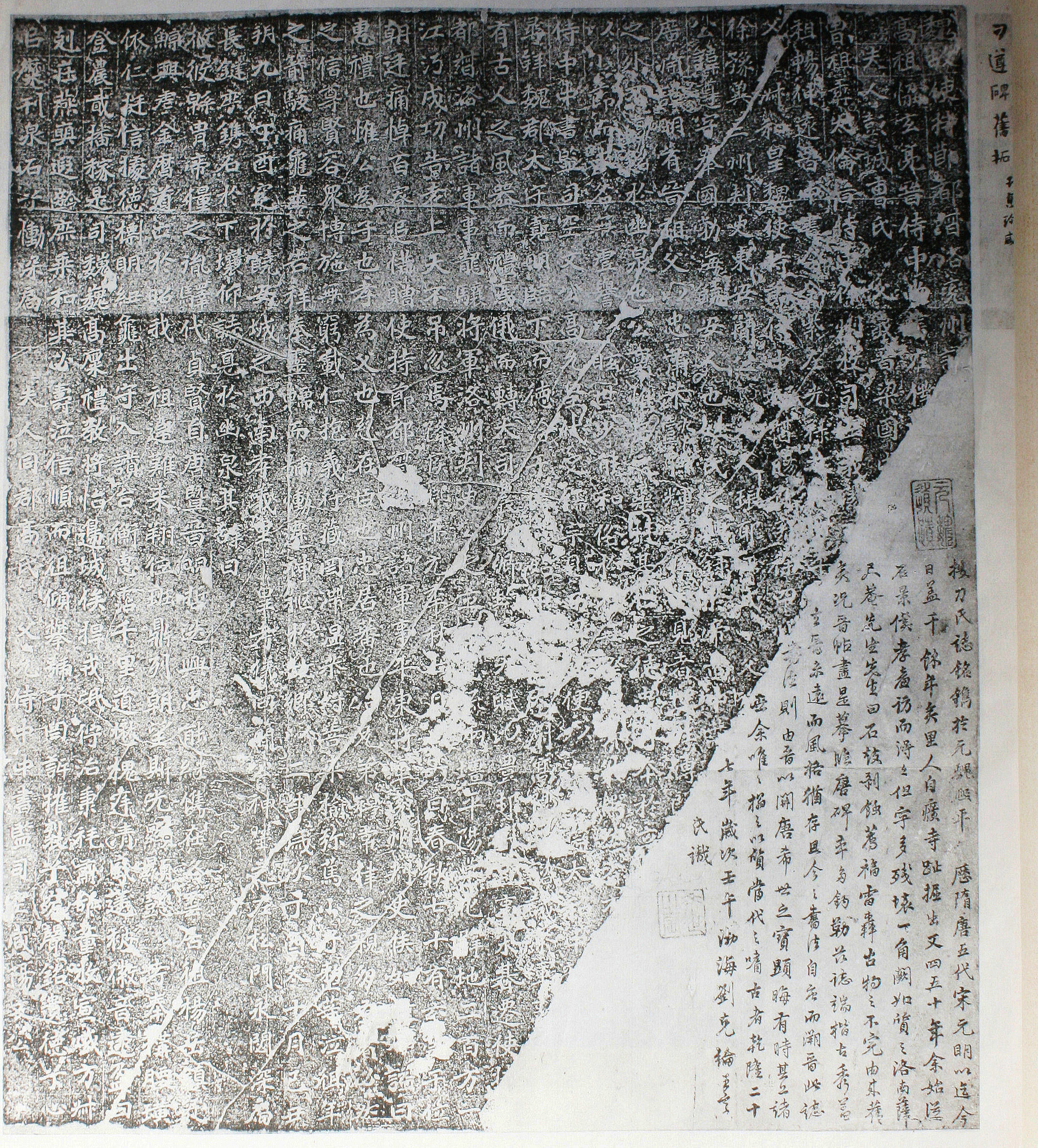 diao zun tomb scription ACE517, Nothei Wei Dynasty, China